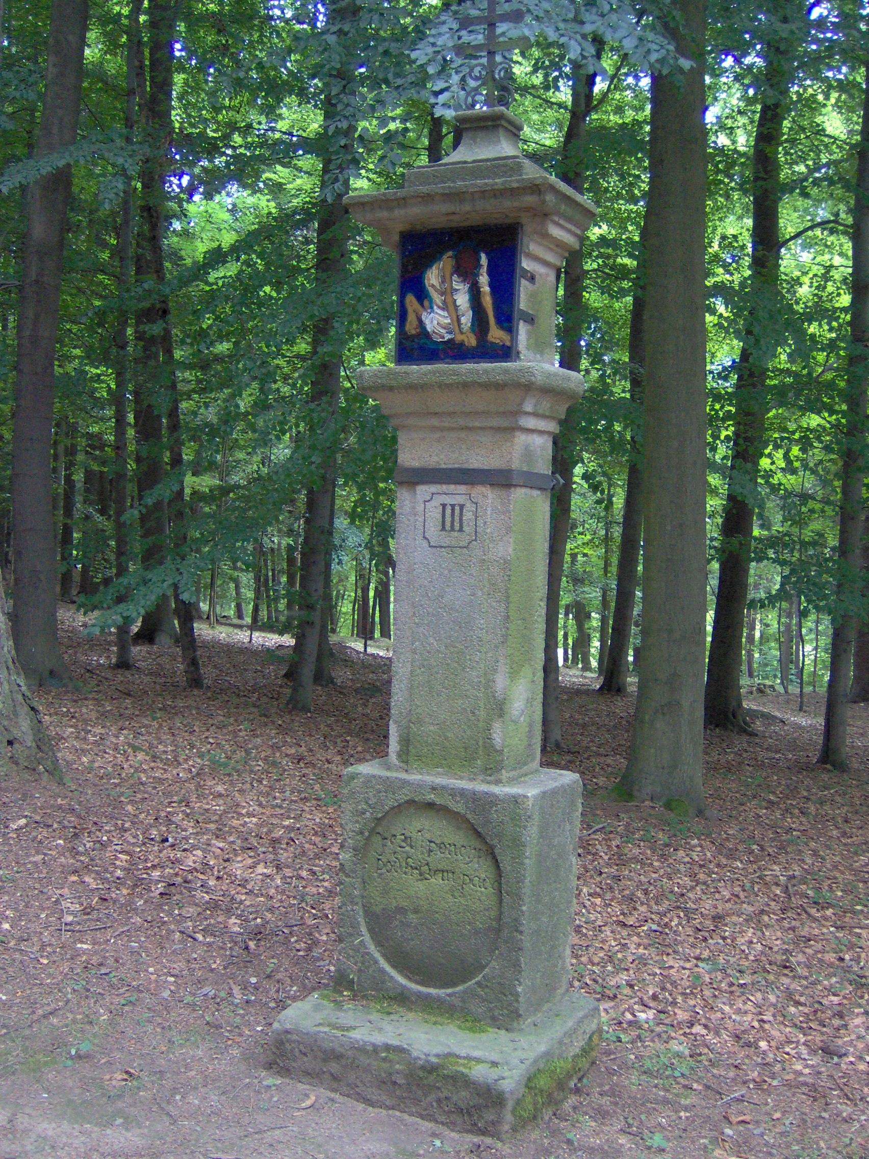 Stations of the Cross to the forest cemetery Bradlo, Kamenice nad Lipou, Pelhřimov District, Czech Republic